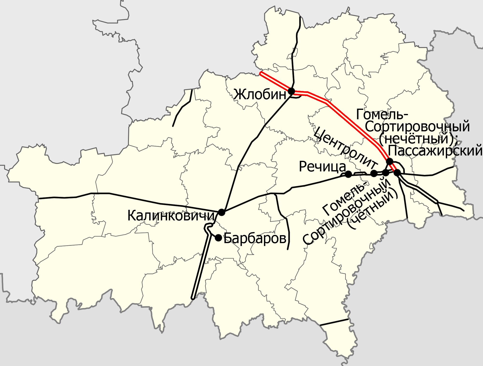 Railroads in Homieĺskaja voblasć, Belarus. Electrified lines are in red. Major station are signed.